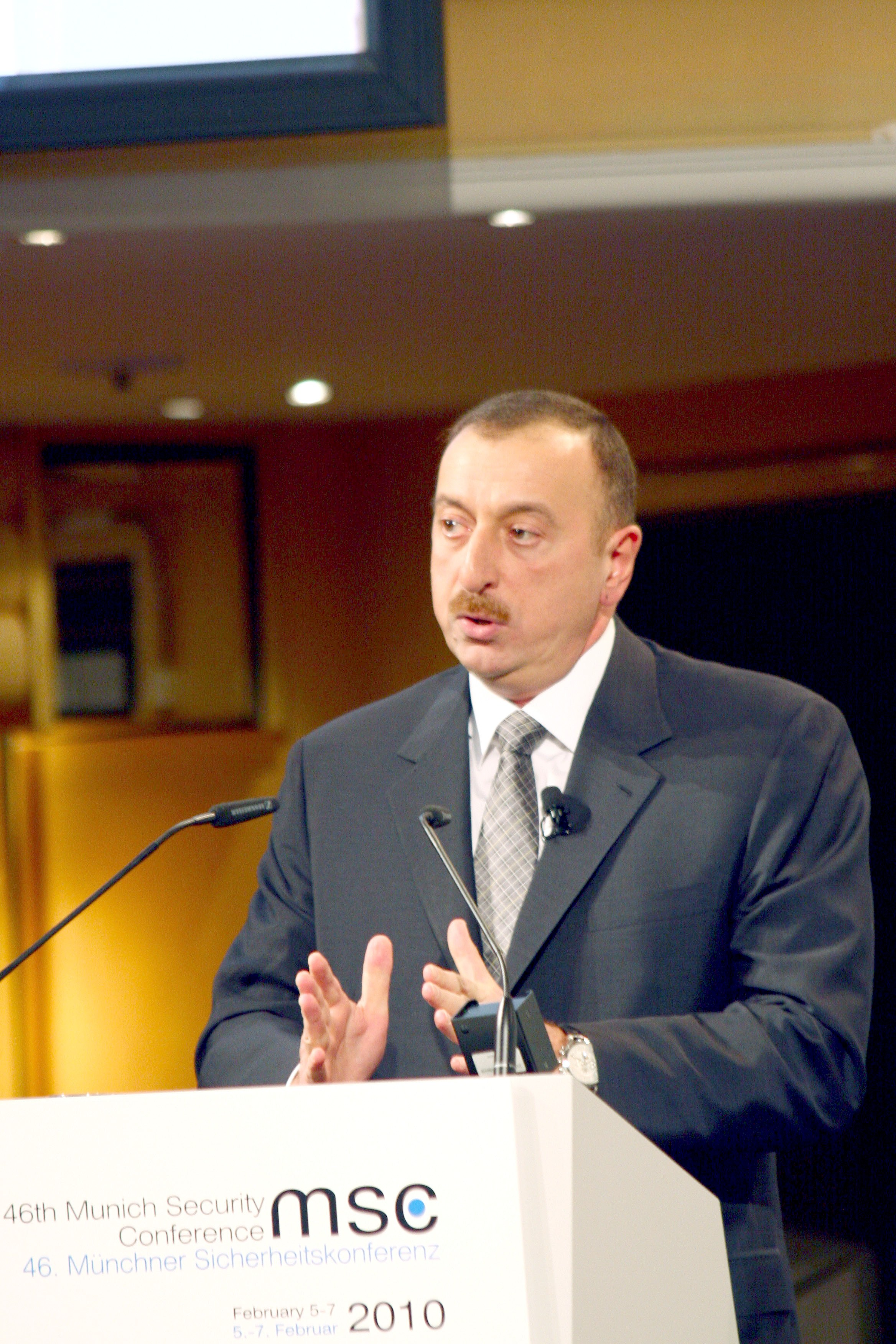 46th Munich Security Conference 2010: Ilham Heydar oglu Aliyev, President, Republic of Azarbaijan.